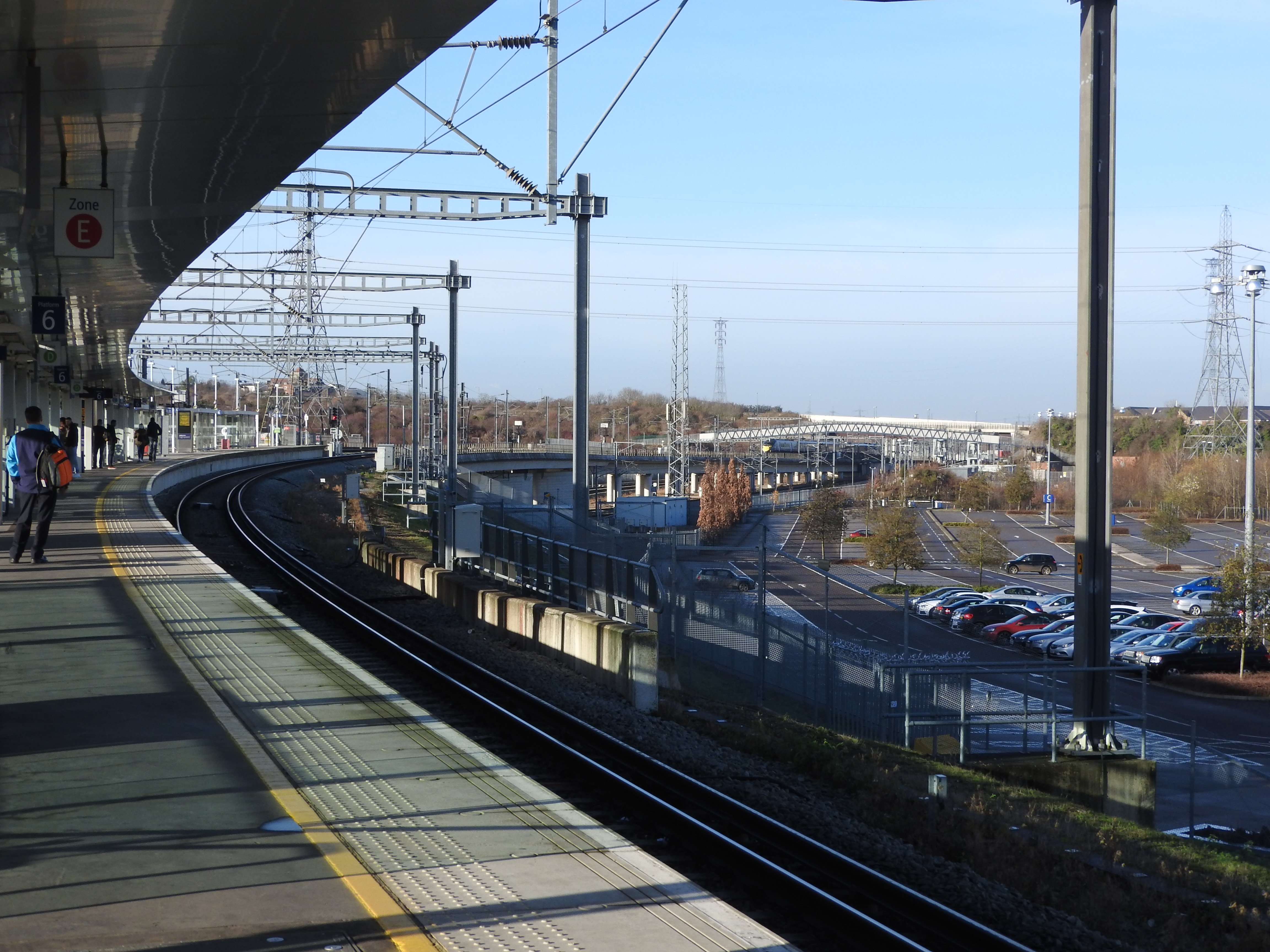 Train approaching from St Pancras. The Southeastern platforms at Ebbsfleet International are separate from the Eurostar platforms. The lines separate to the west of the station. This day there were rail replacement buses handling all stations to Rainham